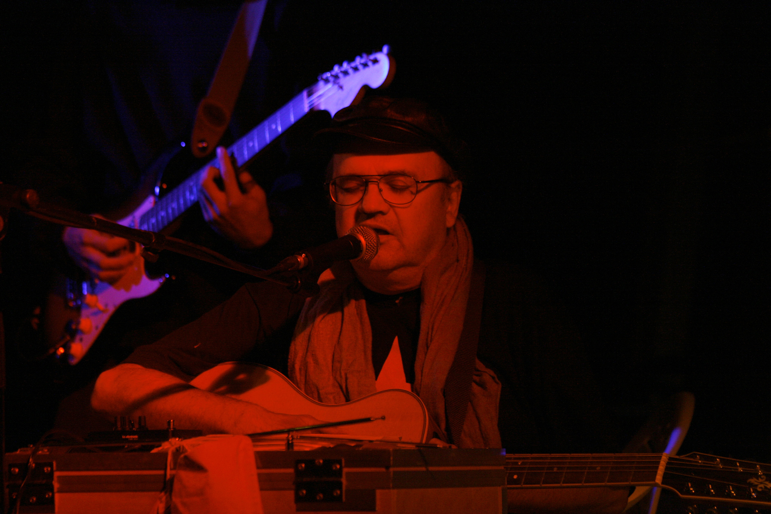 Austrian singer-songwriter Sigi Maron with The Rocksteady Allstars at the Volksstimmefest of the Communist Party of Austria (Prater, Vienna).